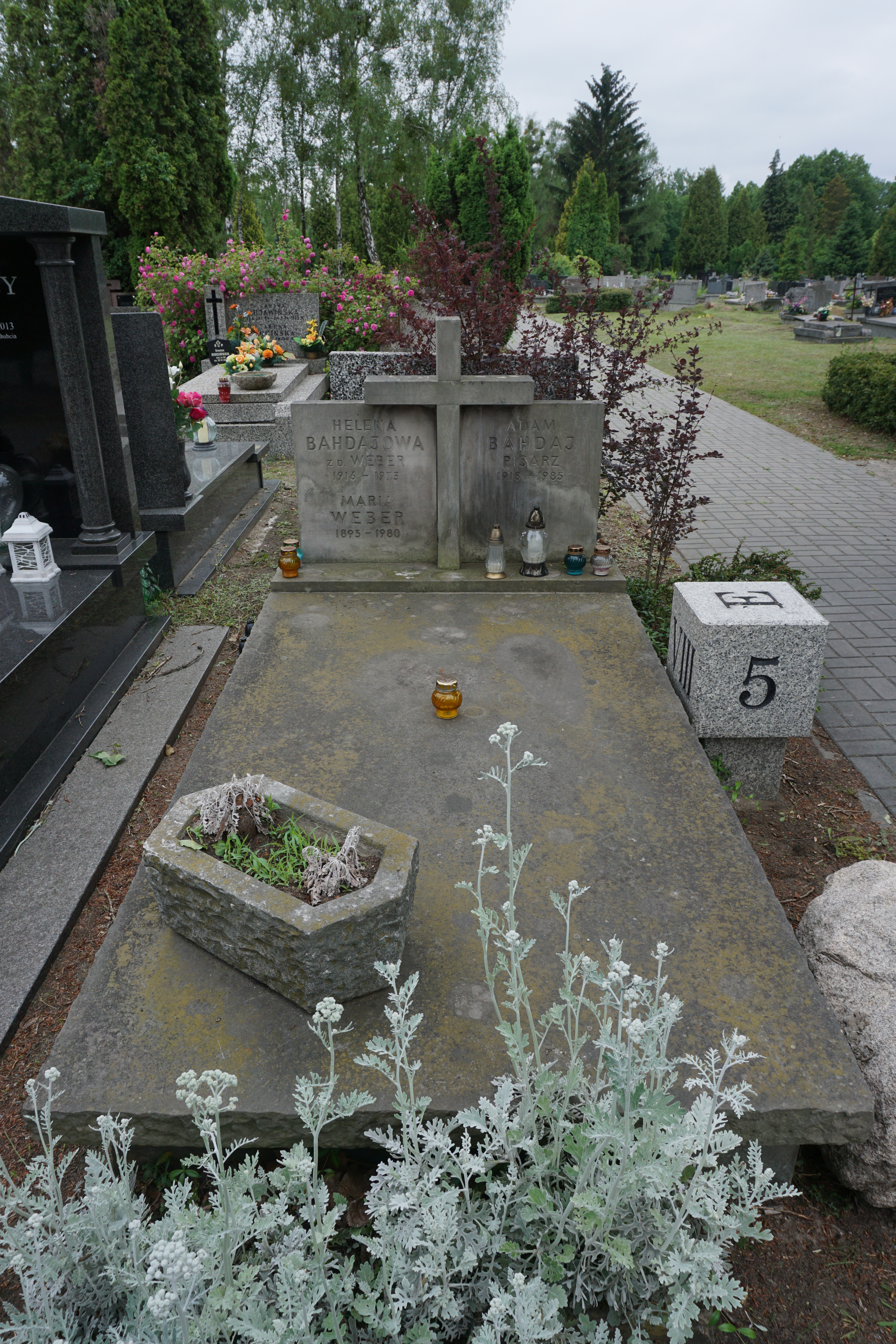 The grave of Adam Bahdaj at the North Municipal Cemetery in Warsaw (section E-VIII-5, row 1, grave 1)